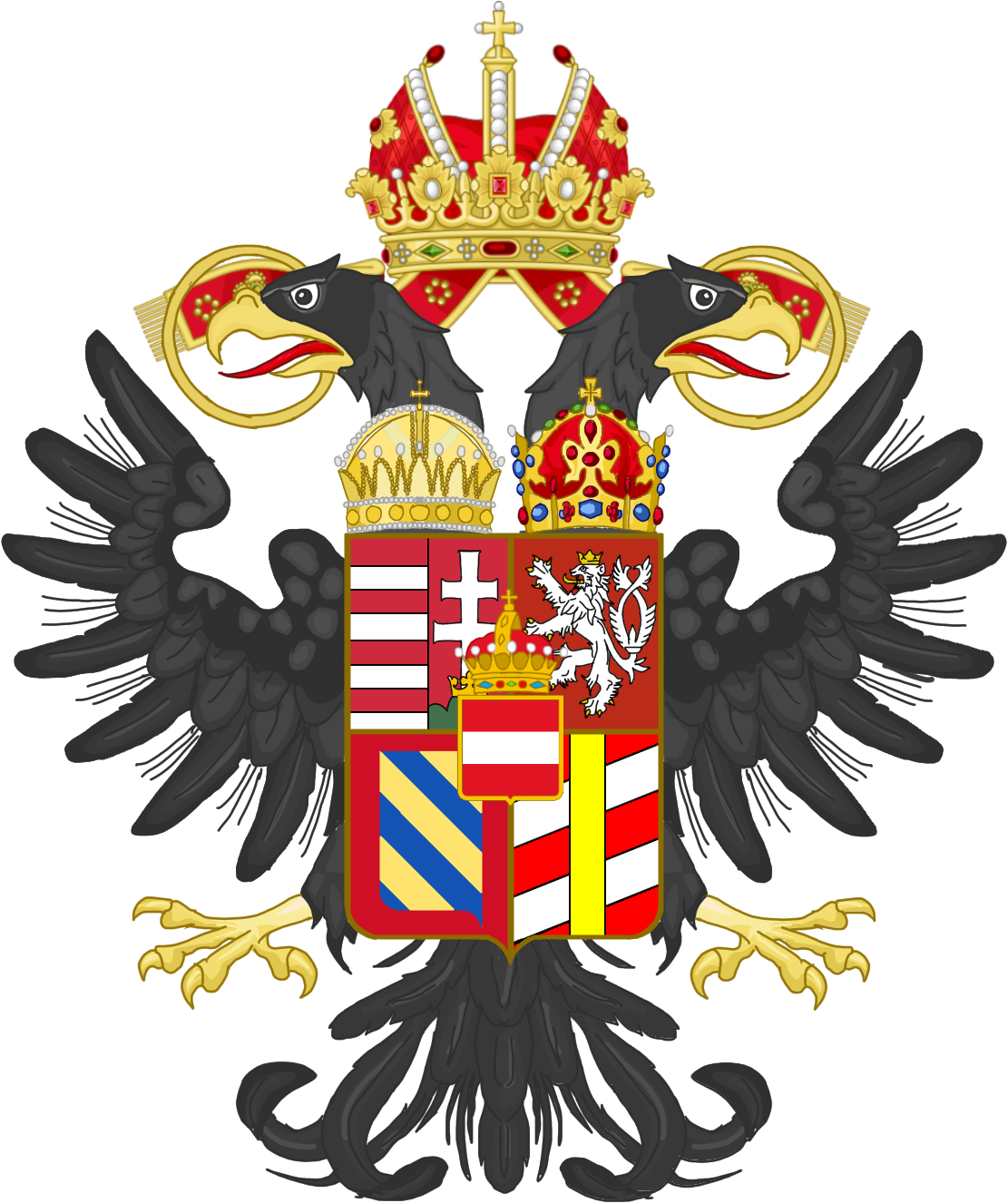 Indeed